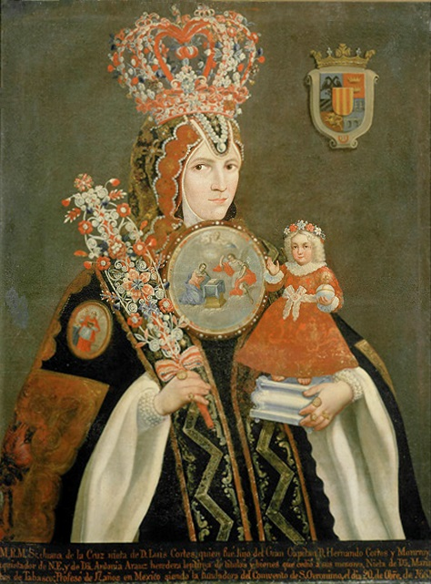 Portrait of Sor Juana de la Cruz Cortés and Arauz from the convent of San Jeronimo de Mexico, misidentified with the writer Sor Juana Inés de la Cruz (1648-1695)